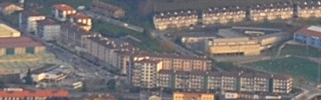 Otegi Enea, Ordizia, Gipuzkoa, Basque Country